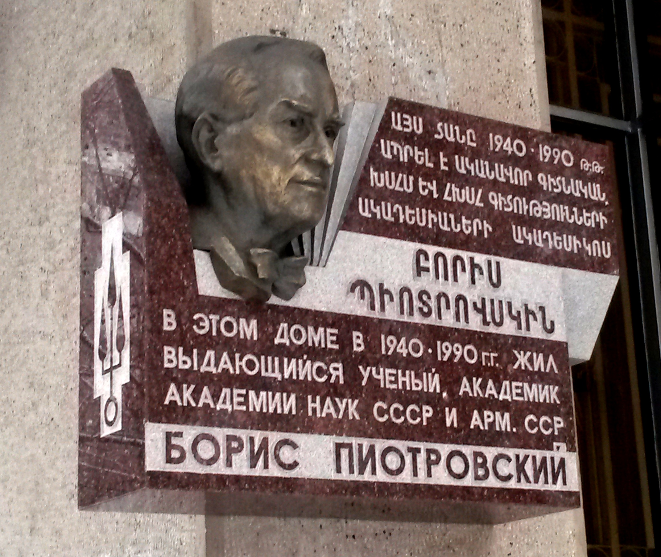 Բորիս Պիոտրովսկու դիմաքանդակ-հուշաքար